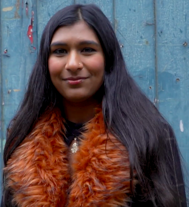 Ash Sarkar in December 2019